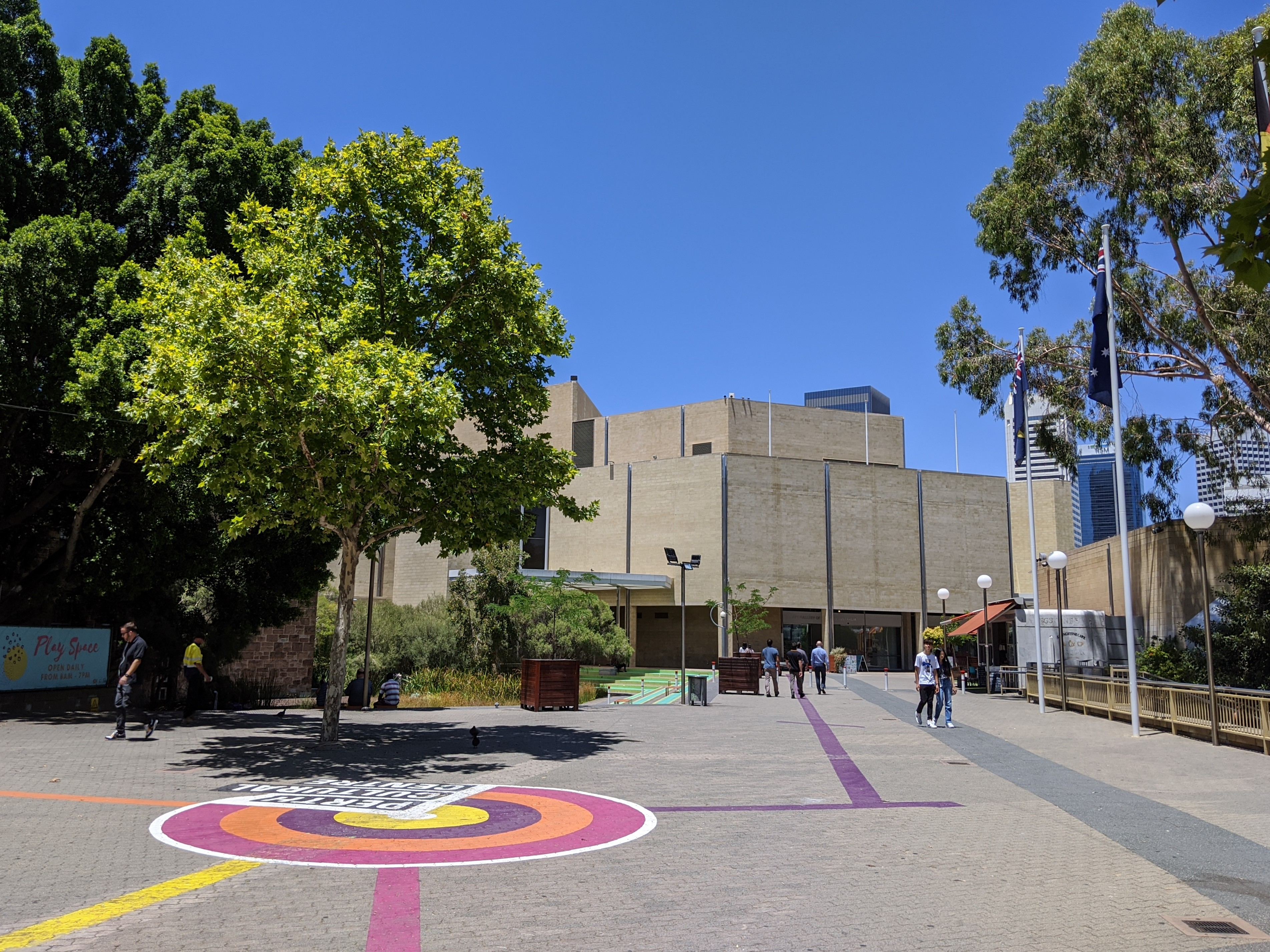 Art Gallery of Western Australia and the Perth Cultural Centre